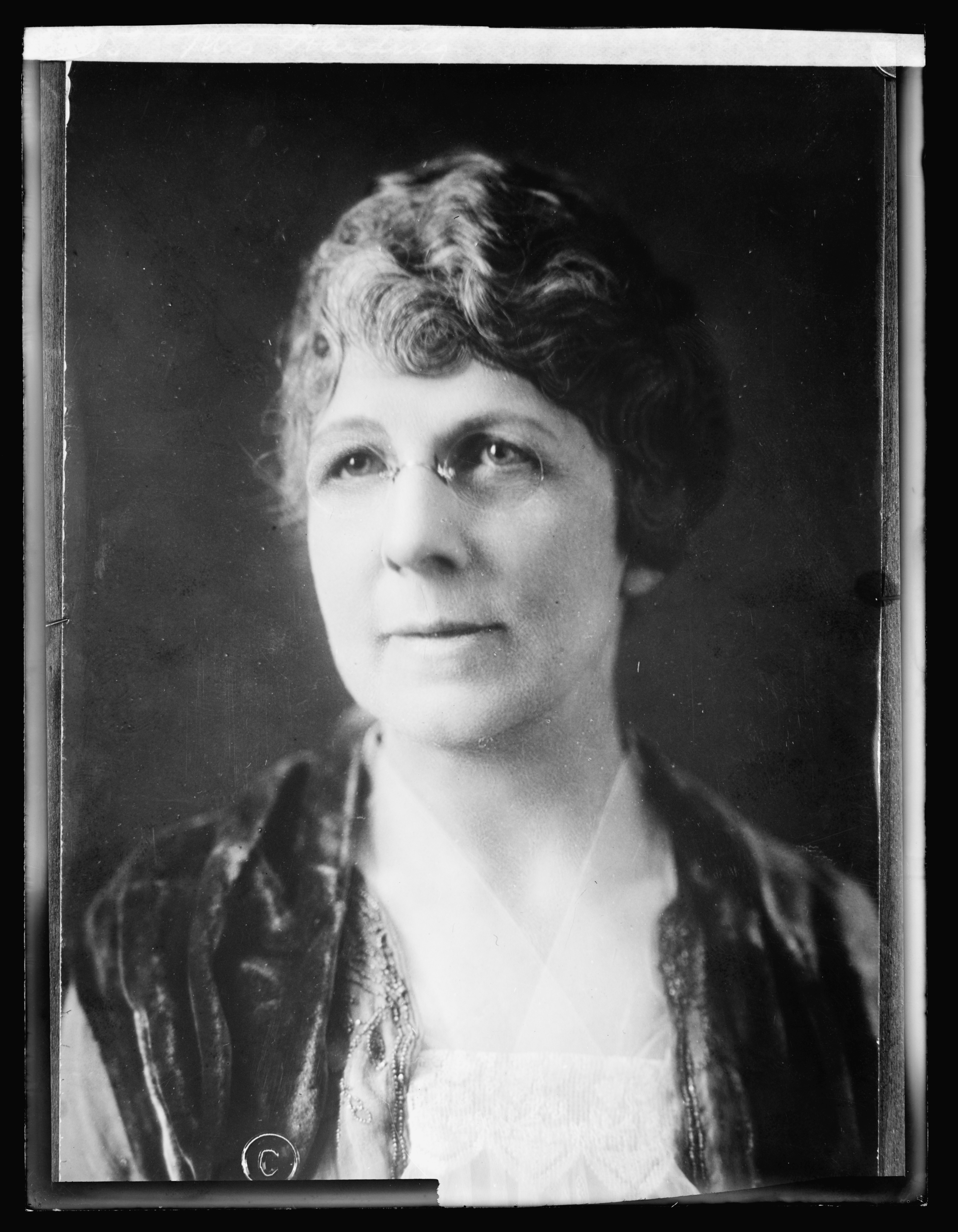 Title: Mrs. Harding Abstract/medium: 1 negative : glass ; 8 x 6 in.